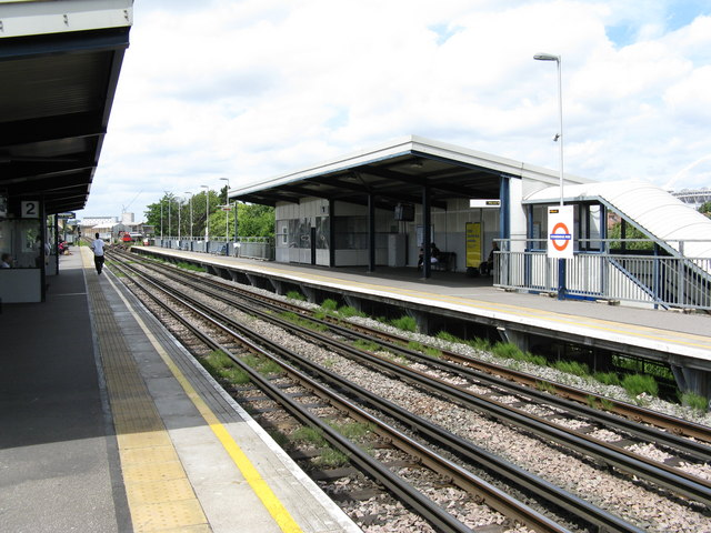 Stonebridge Park station, London Transport The station is served by Bakerloo Line Underground trains, running between Harrow & Wealdstone and Elephant & Castle, and Overground services between Watford Junction and Euston.